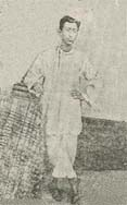 source URL circa 1898, so should be public domain-- (unsigned comments of original uploader) Edited licensing since this is not a screenshot, but a biographical picture of an individual who died in 1917 and therefore clearly in the public domain.--Antorjal 02:40, 2 November 2006 (UTC) Subject died in 1917. Copyright laws of Bangladesh and India allow use of this photograph.